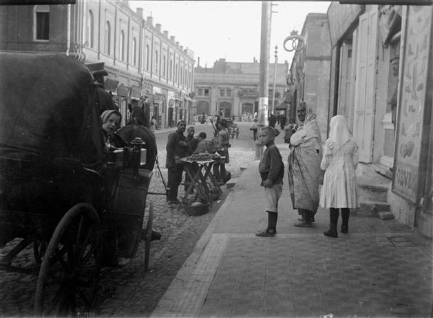 Original caption:Robert Nobel searched in vain for walnut in the forests west of Baku but found that the trees were either too old or too neglected to be used in the production of rifles. Robert did discover that Baku had become a bustling city, however, due to its oil deposits.